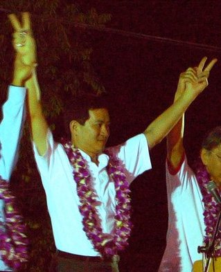 Steve Chia at the Singapore Democratic Alliance (SDA) rally at Choa Chu Kang Park, Singapore, on Tuesday, 2 May 2006, during the hustings for the 2006 general election.